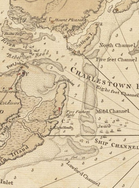 Map, showing Charleston Bar and the coastline. The map was probably drawn by British engineers around the time of the 1780 Siege of Charleston.